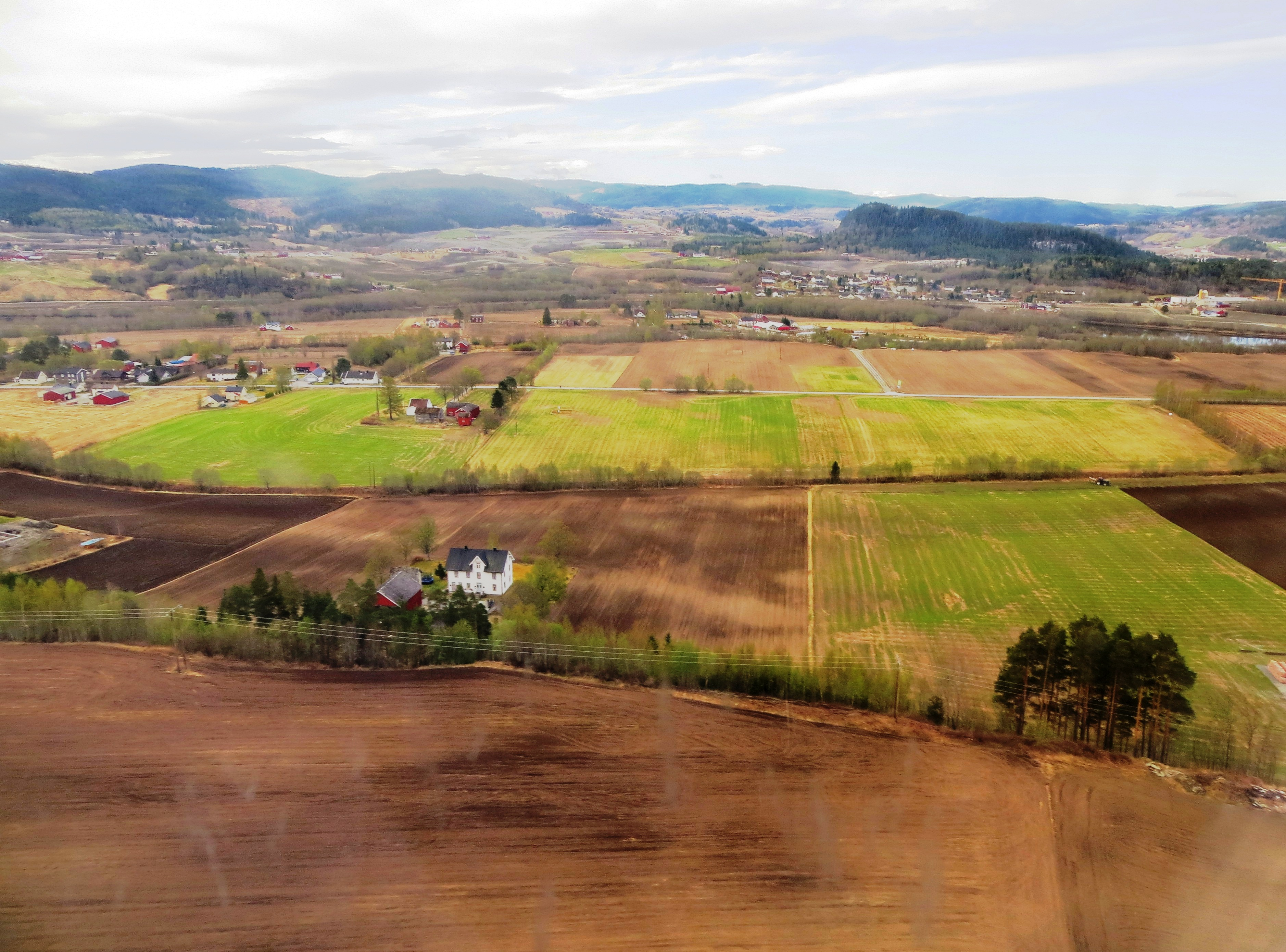 Aerial view over the southern shore of the Stjørdalselva river, in the municipality of Stjørdal - Nord-Trøndelag, Norway